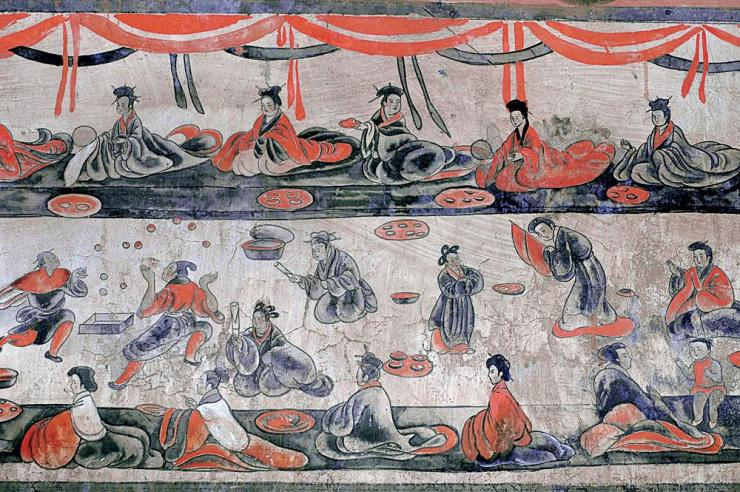 The Dahuting Tomb (Chinese: 打虎亭汉墓, Pinyin: Dahuting Han mu; Wade-Giles: Tahut'ing Han mu) of the late Eastern Han Dynasty (25-220 AD), located in Zhengzhou, Henan province, China, was excavated in 1960-1961 and contains vault-arched burial chambers decorated with murals showing scenes of daily life. For further information, see the Baidu article (in Chinese): 打虎亭汉墓. Click here for more pictures and a step-by-step walkthrough of the tomb, from the outside, down a stairwell, and through the vaulted burial chambers.